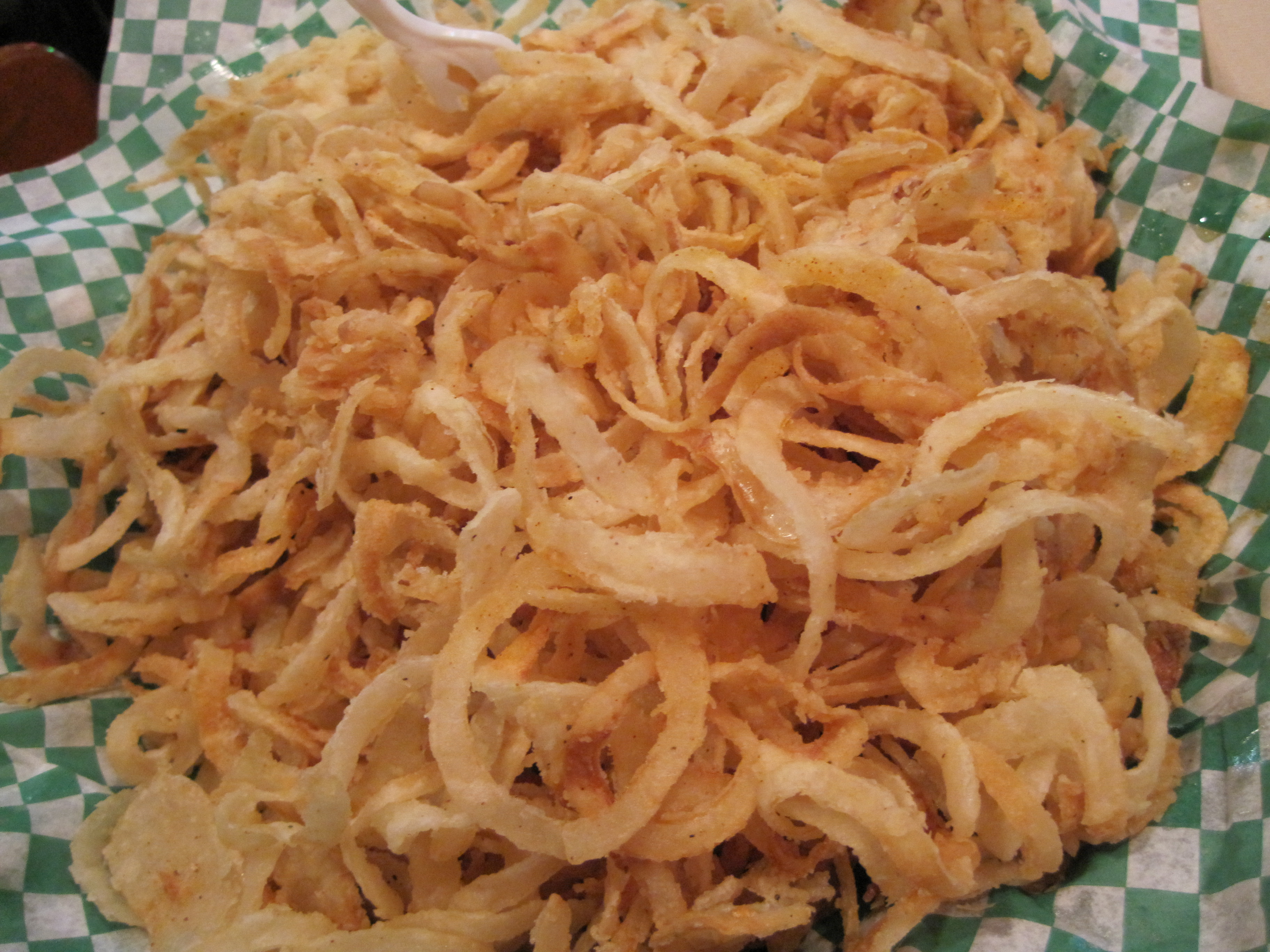 Onion straws from the Minneapolis restaurant 5-8 Club.